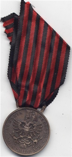 Italian Expedition to Albania Medal (2n Model)